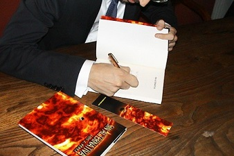 Sign of the novel